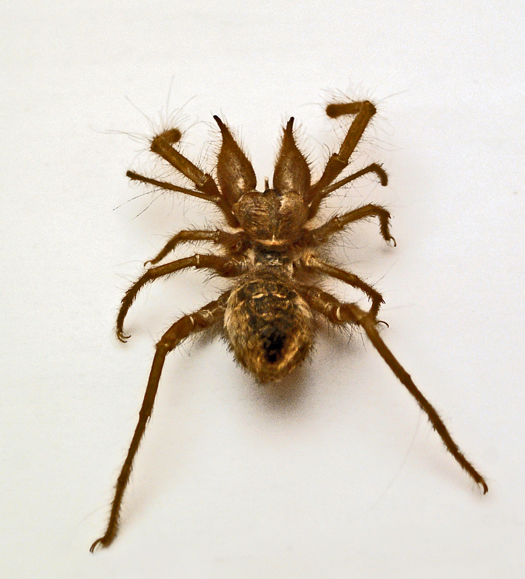 Zeria loveridgei from Somalia on display at the Museo Civico di Storia Naturale di Milano